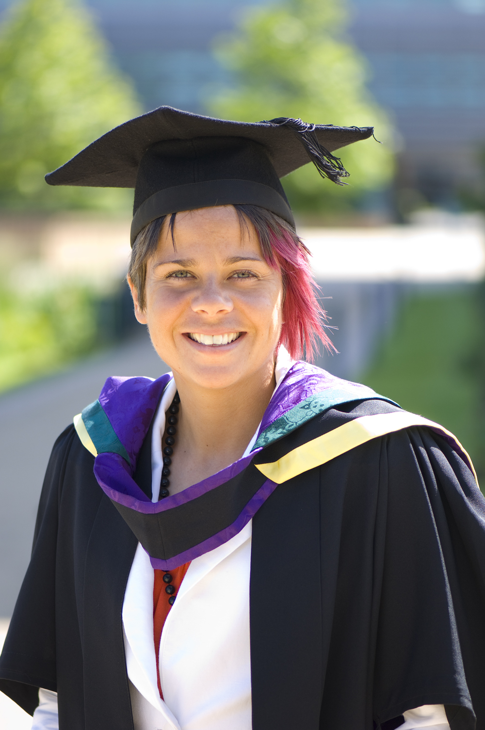 Leeds Carnegie footballer Sue Smith received an honorary degree from Edge Hill University